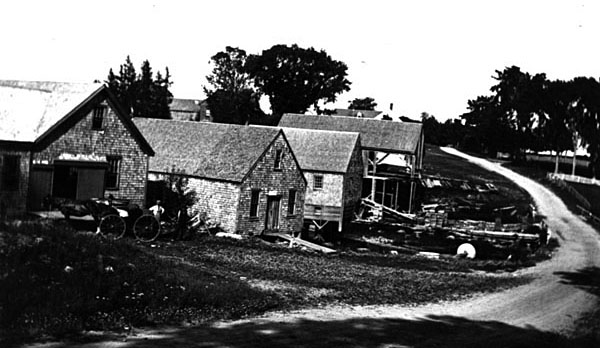 Sawmill and other buildings along road, ca. 1910. Provincial Archives of New Brunswick number P62-2.